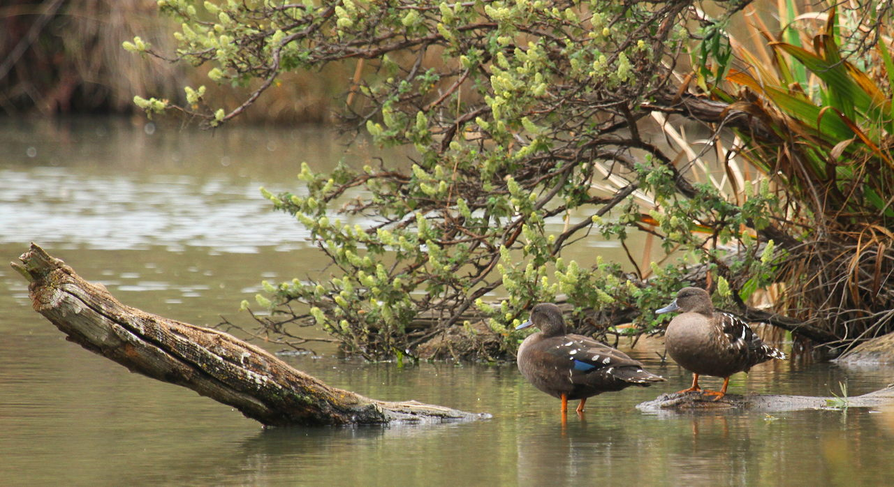 African Black Duck Anas sparsa at Walter Sisulu National Botanical Garden